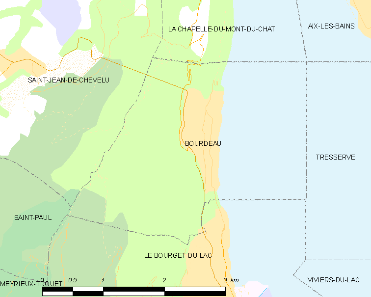 Map of French municipality